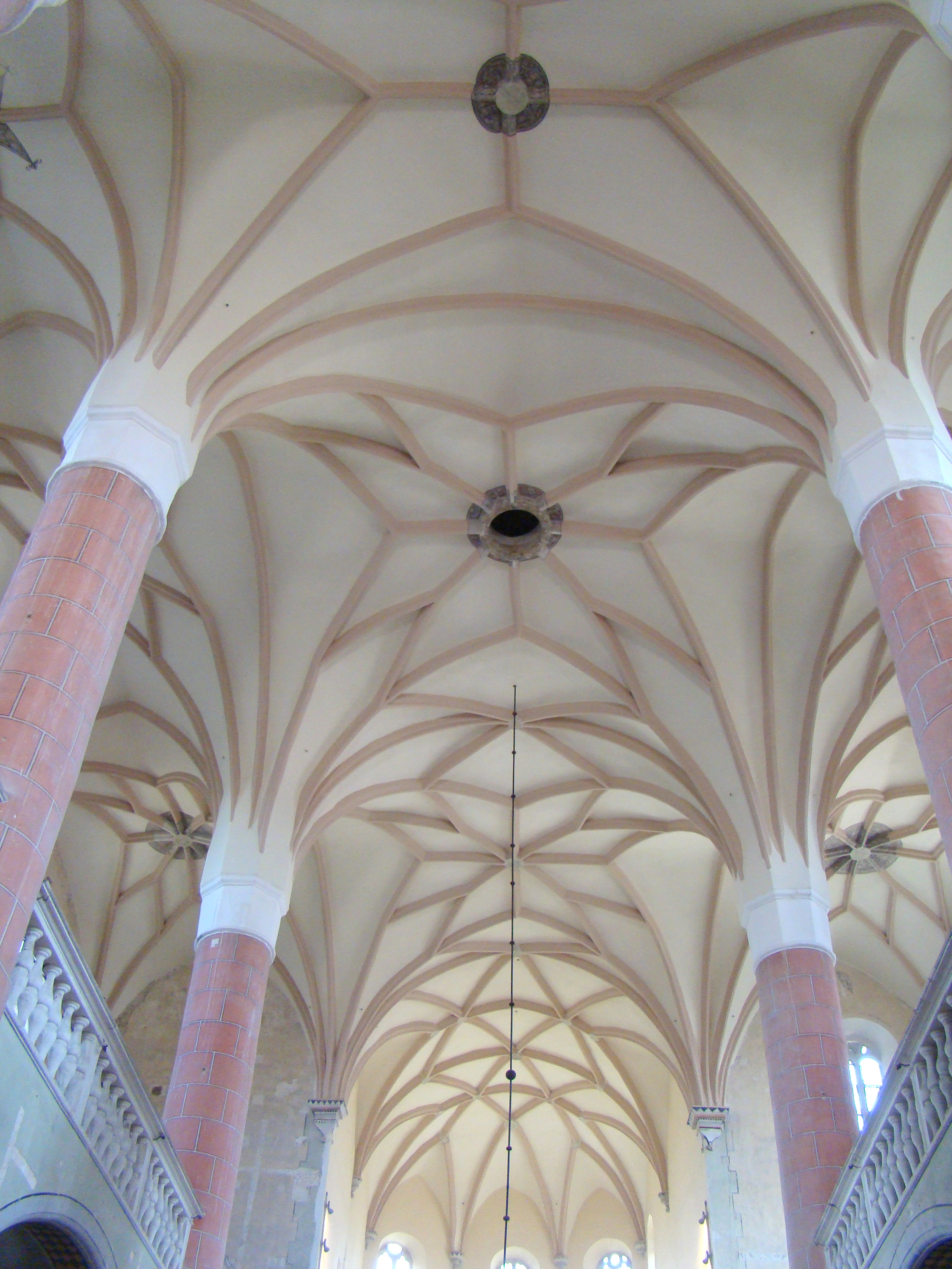 Lutheran church in Bistrița